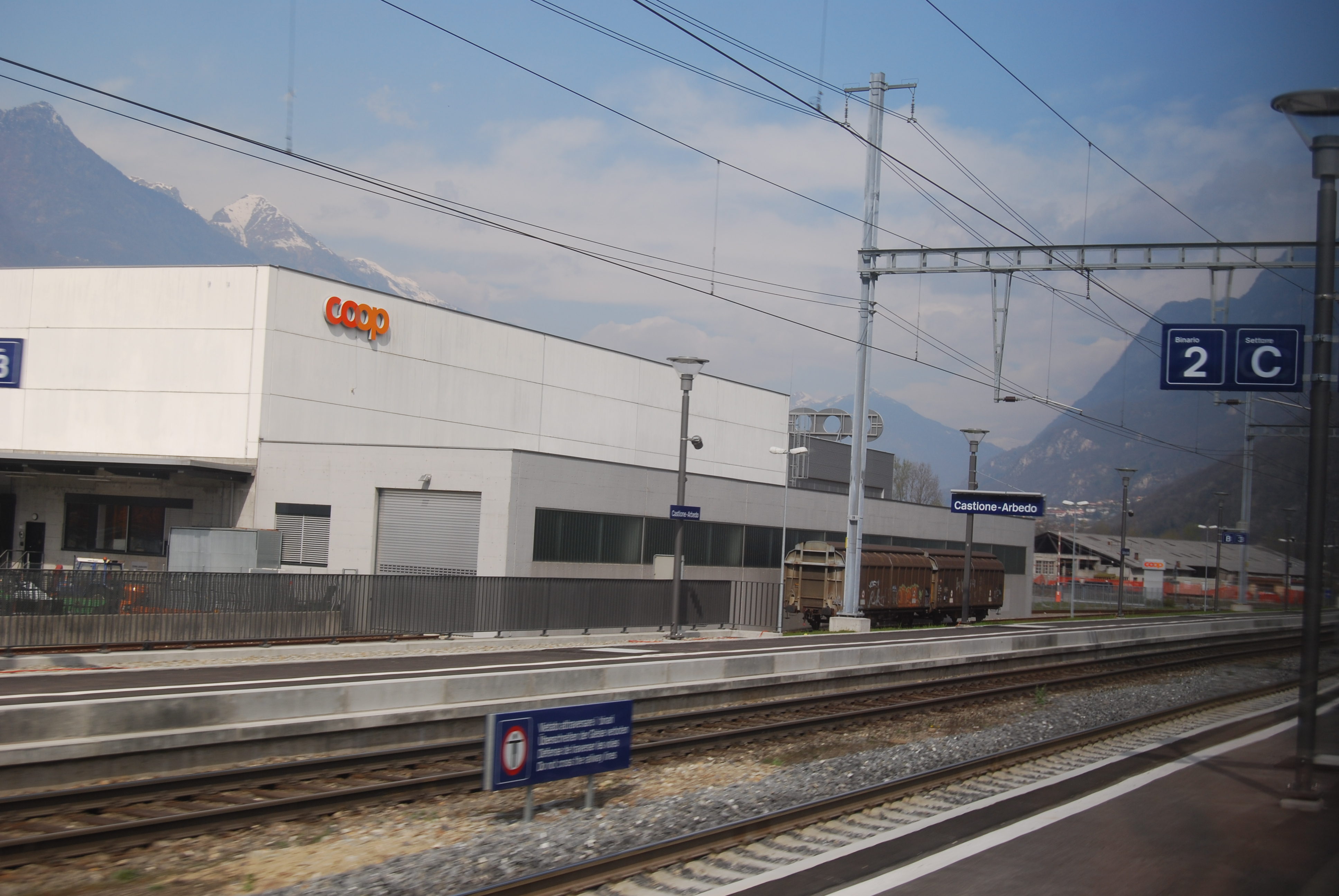 Trainstation of Arbedo-Castione, canton of Ticino, Switzerland